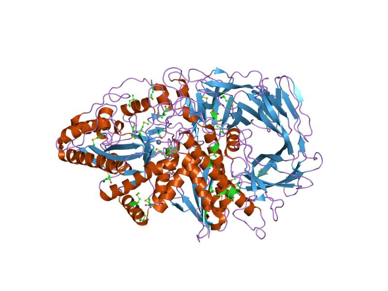 Cartoon representation of the molecular structure of protein registered with 1hty code.